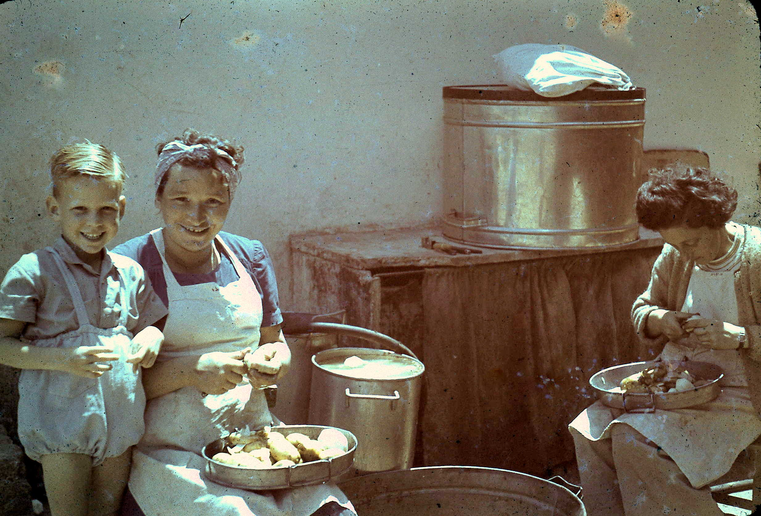 Kitchen workers, Economy of Israel